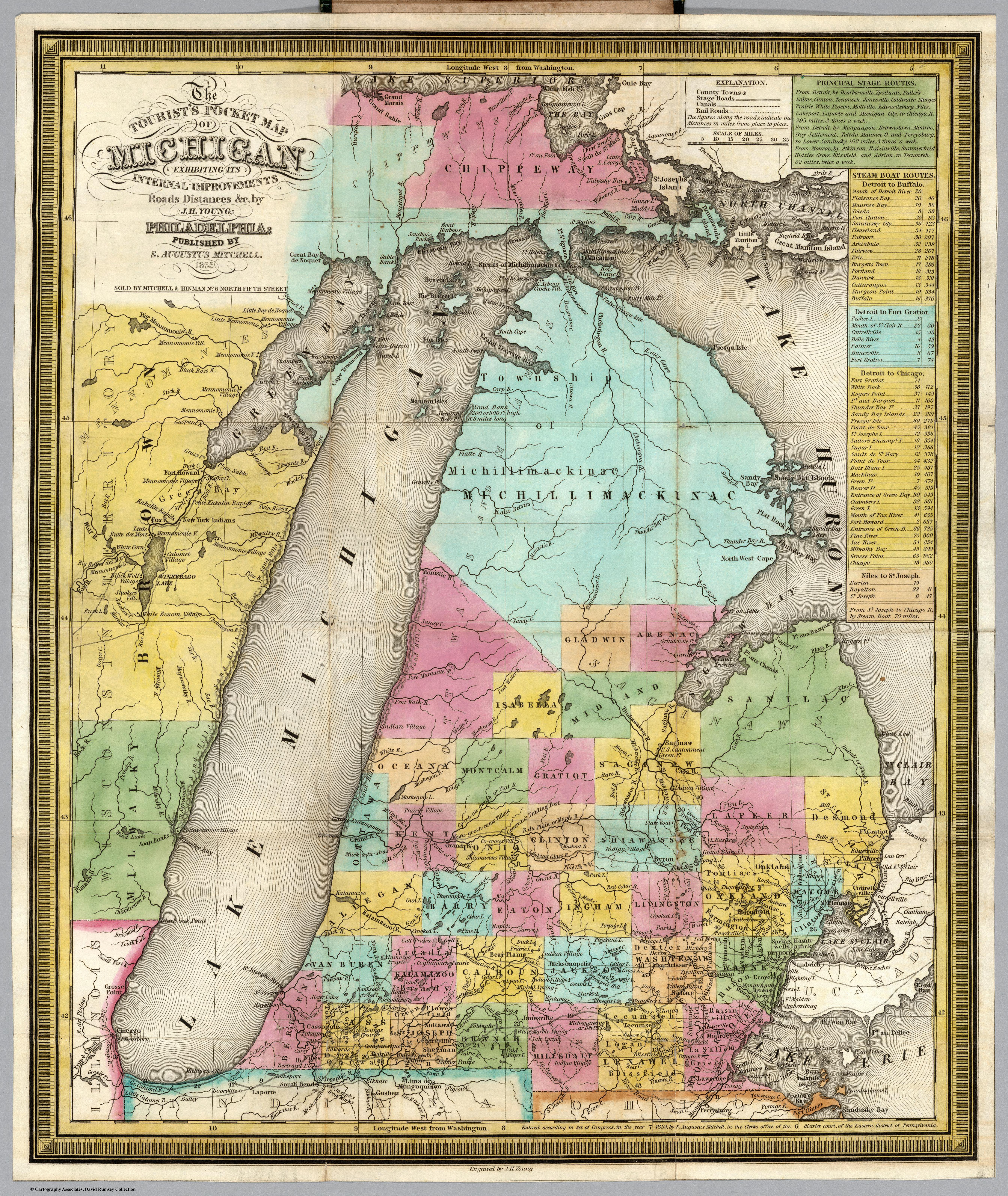 The Tourist's Pocket Map Of Michigan Exhibiting Its Internal Improvements Roads Distances &c. by J.H. Young. Philadelphia: Published By S. Augustus Mitchell. 1835. Sold By Mitchell & Hinman No. 6 North Fifth Street. Entered ... 1834 by S. Augustus Mitchell ... Pennsylvania. Engraved by J.H. Young.